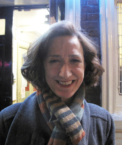 Actress singer Haydn Gwynne